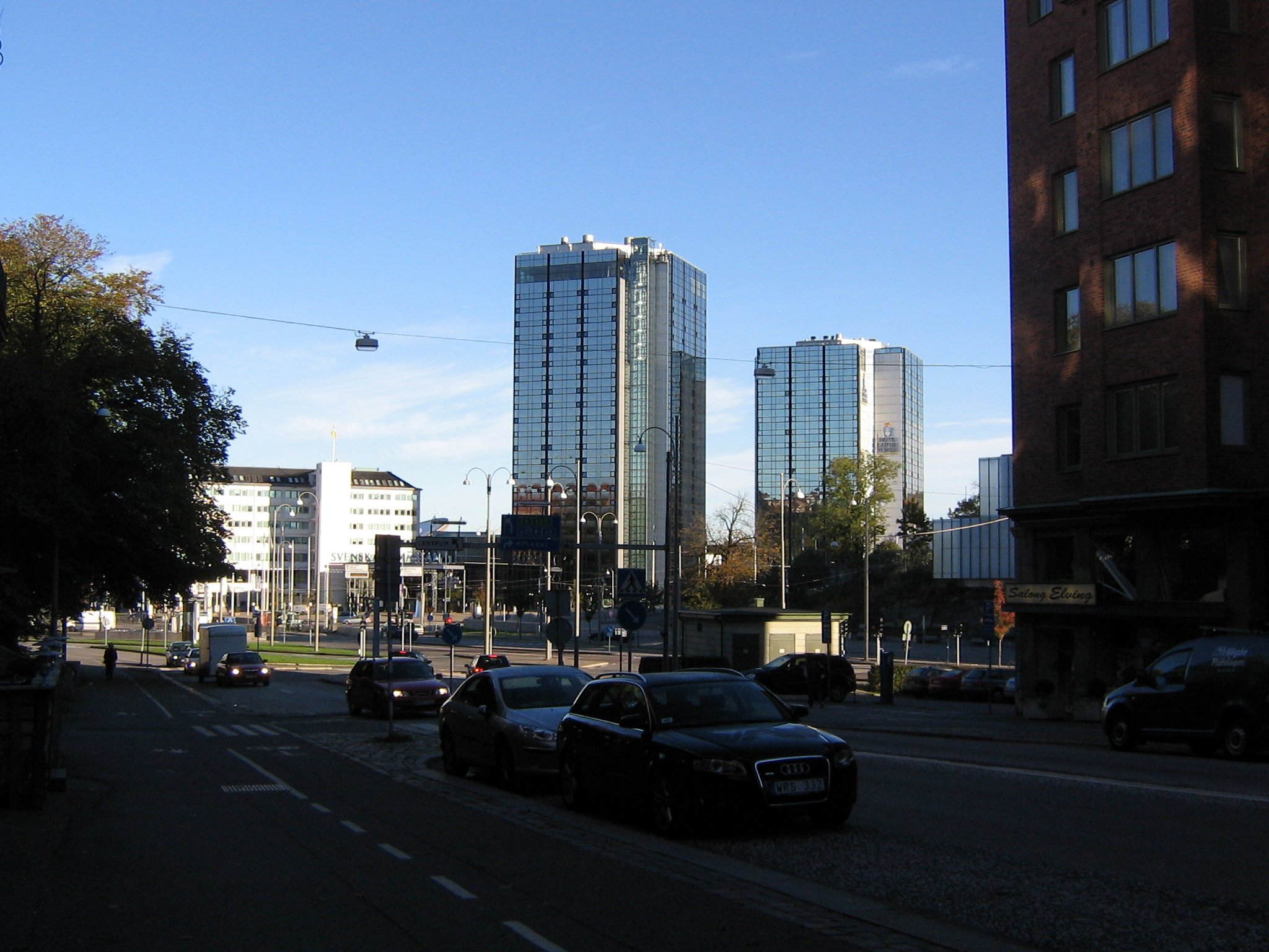 Hotel Gothia Towers, Gothenburg, Sweden Fotograf: Ärkan